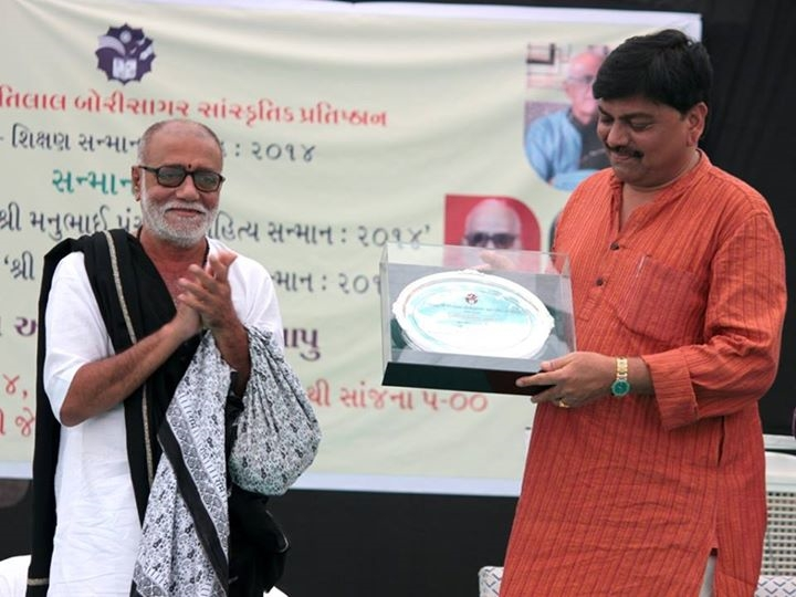 Sanju Vala were accepting Darshak Sanman Award ગુજરાતી: કવિ સંજુ વાળા - દર્શક સન્માન ૨૦૧૪